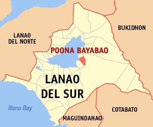 Map of the Lanao del Sur showing the location of Bayabao